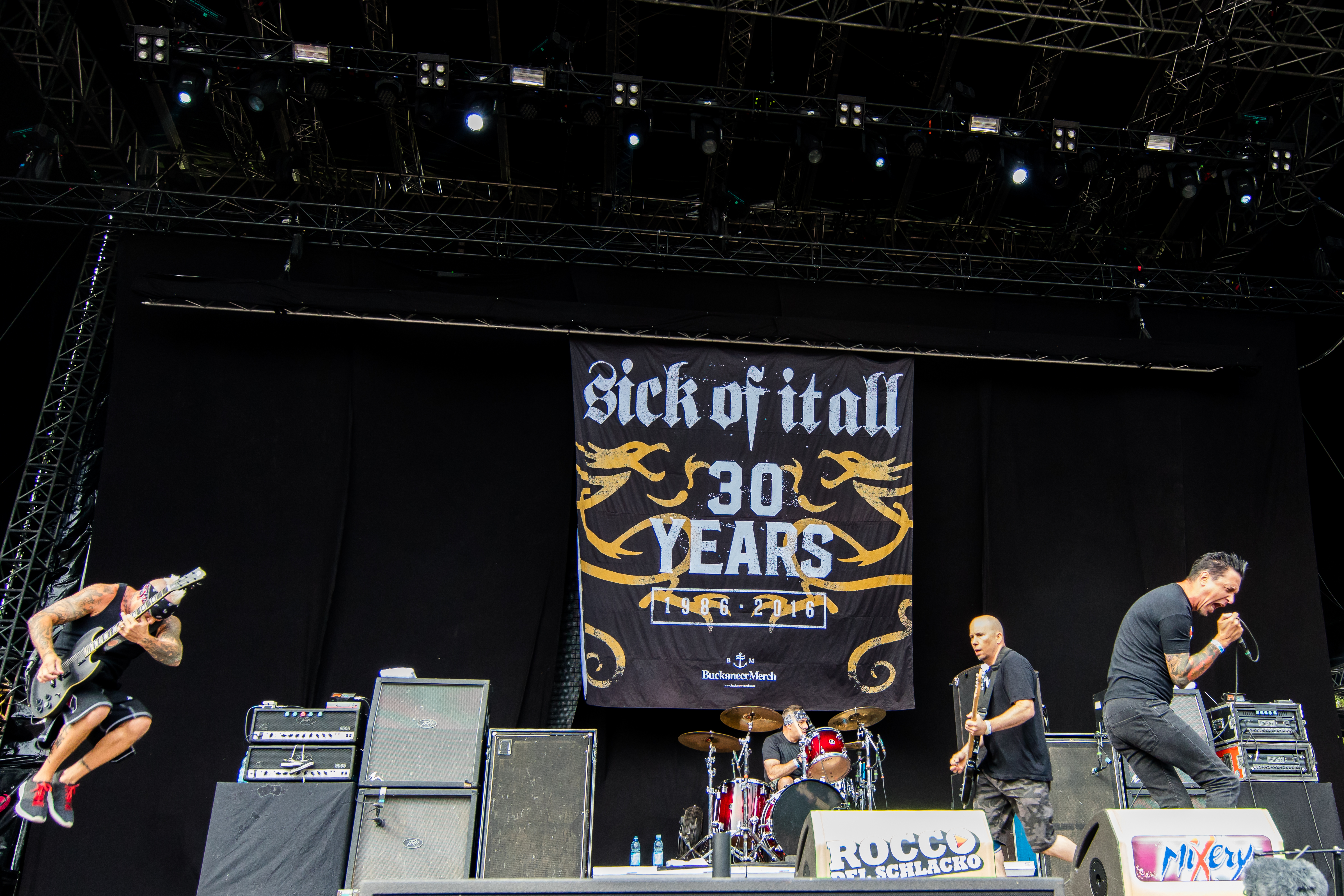 Sick of It All during Rocco del Schlacko 2016 at , Püttlingen, Saarland, Germany on 2016-08-11, Photo: Sven Mandel